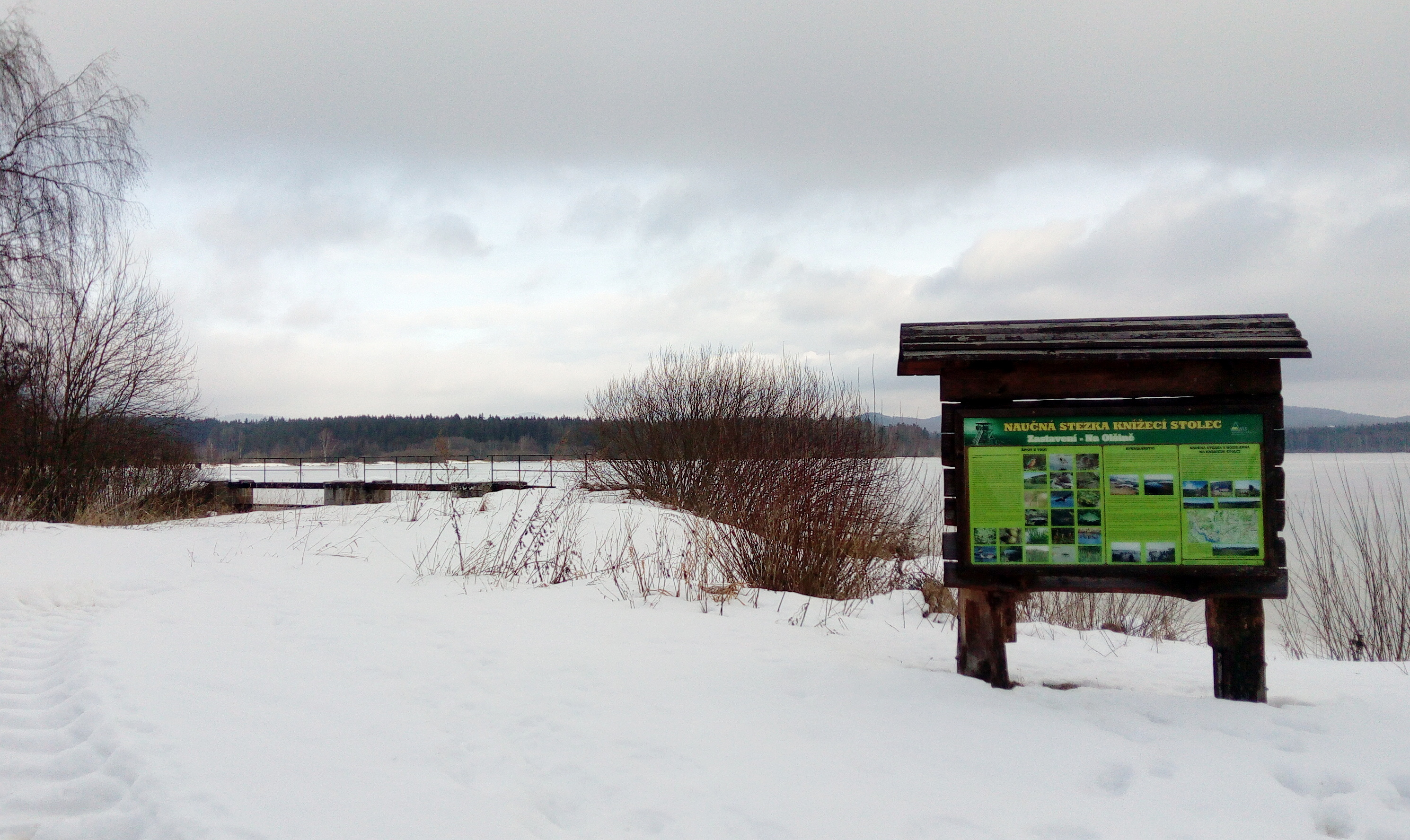 Information board at Olšina, a pond in Český Krumlov District, South Bohemian Region, Czechia.